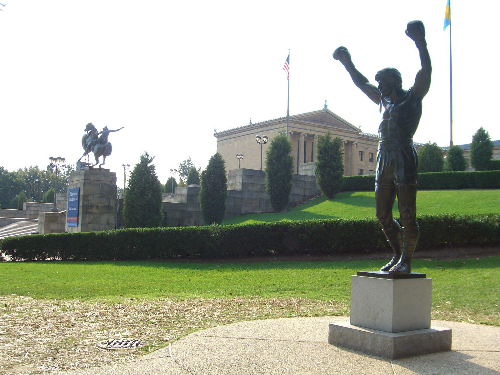 The statue of Rocky Balboa in front of the of Philadelphia Museum of Art, September 26, 2006. This photo was created by Luigi Novi. It is not in the public domain, and use of this file outside of the licensing terms is a copyright violation.